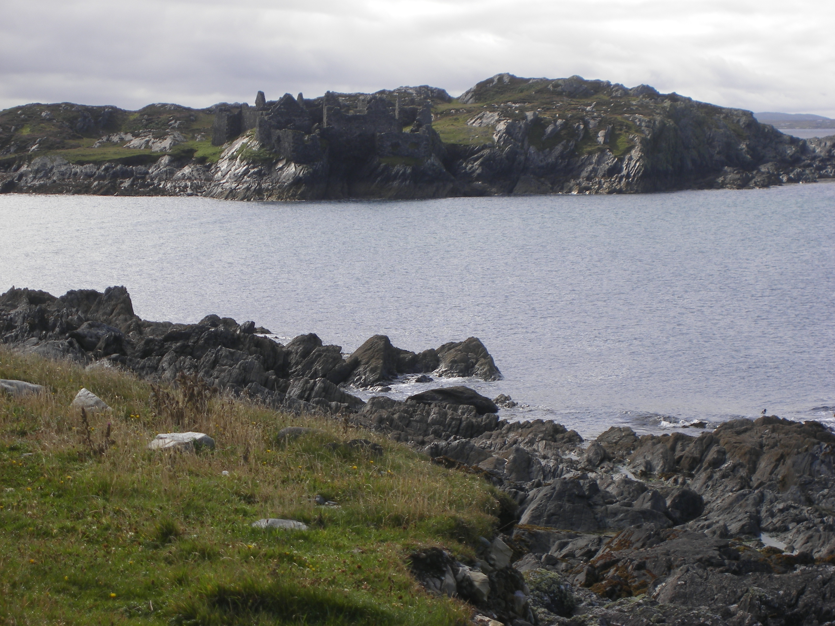 Inishbofin, Galway, Ireland. Old castle. Photo d'Alvaro, 2006-08-06